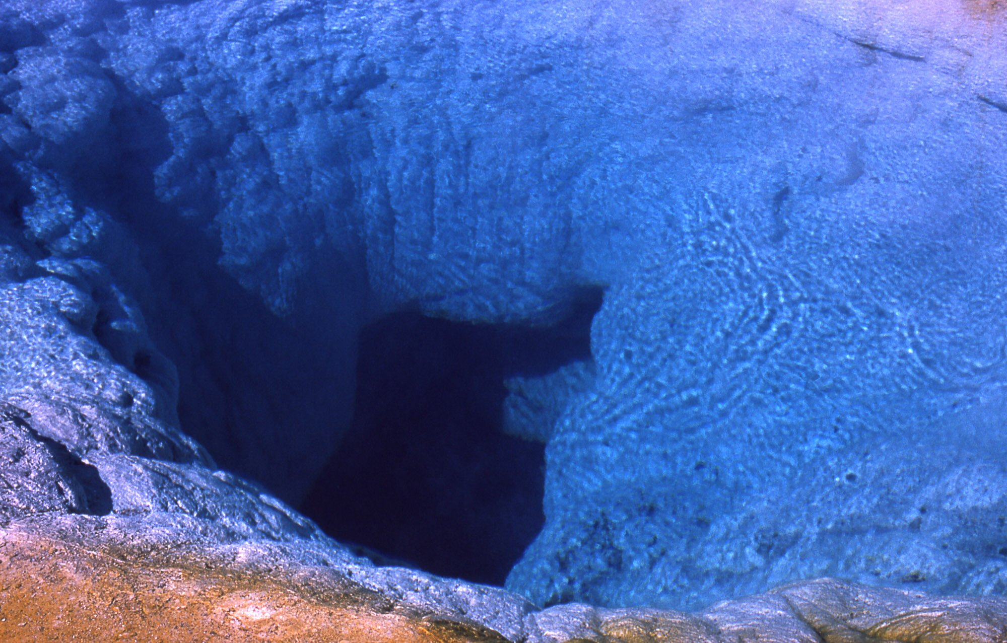 Morning Glory Pool, Upper Geyser Basin, Yellowstone National Park, 1966